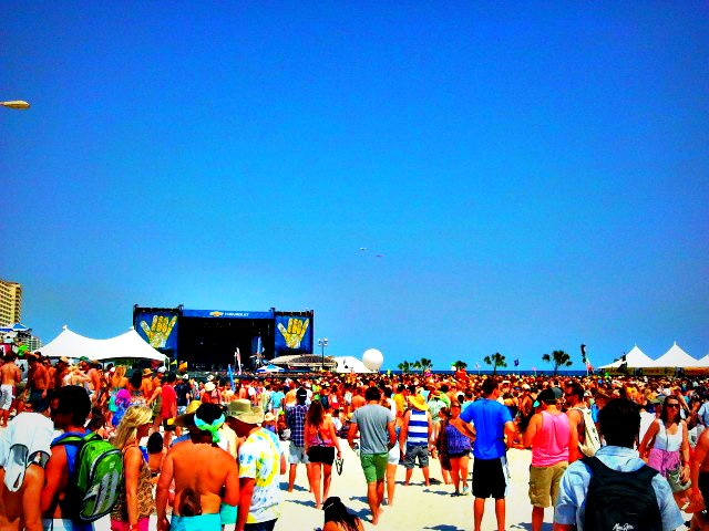 Overlooking crowd at Chevrolet Stage at Hangout 2012